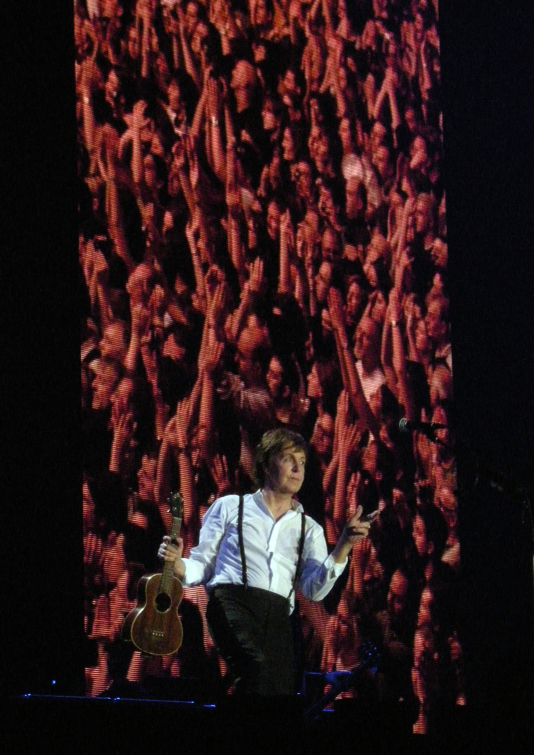 Paul McCartney on stage in Bologna, Italy